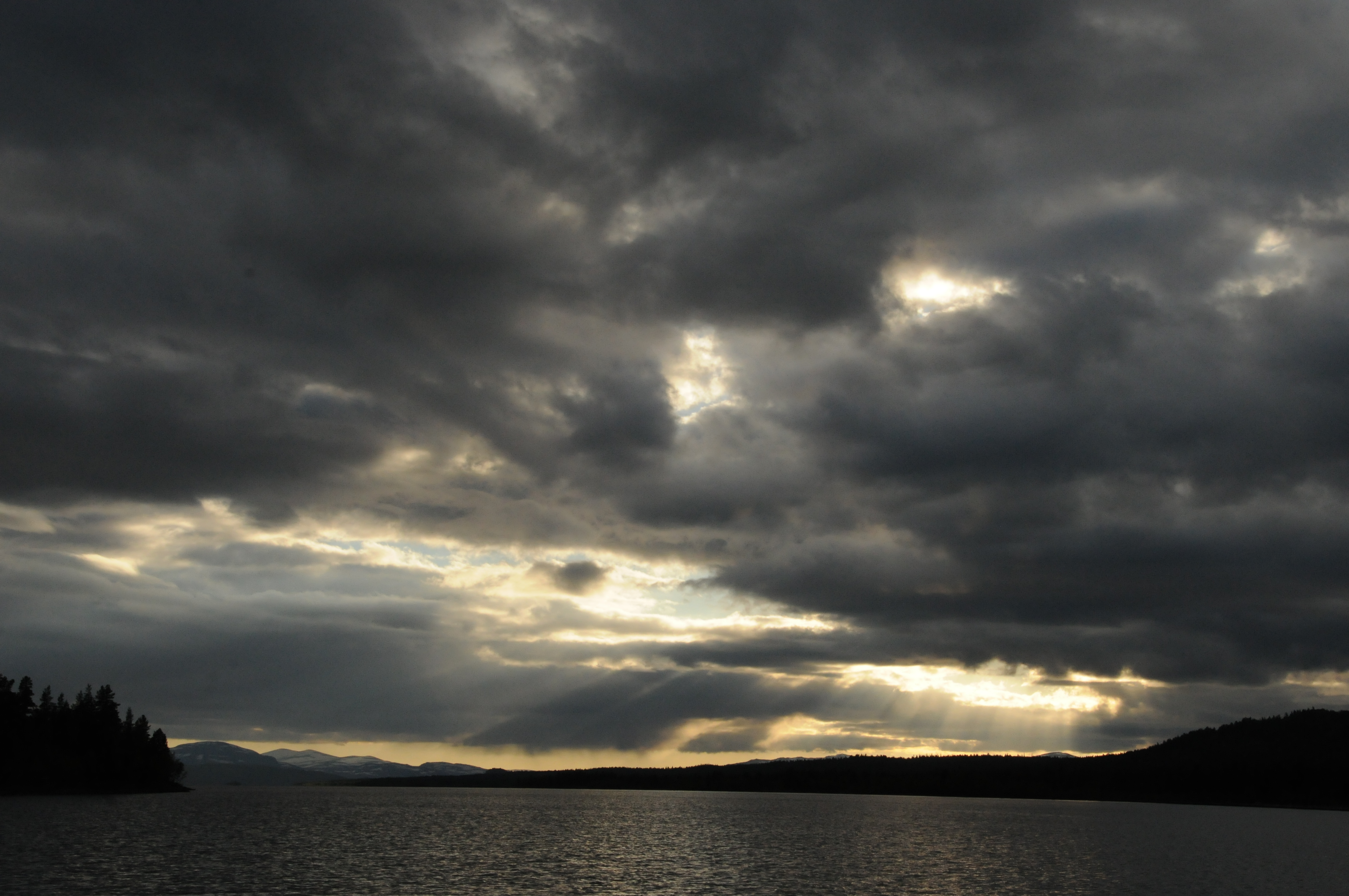 Lábbas lake with Tjidtják mountain and others behind